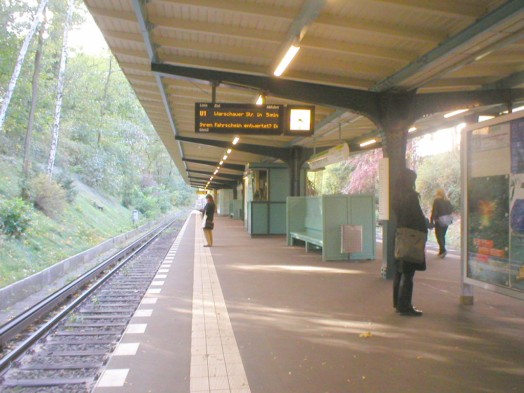 The Berlin U-Bahn station "Oskar-Helene-Heim"